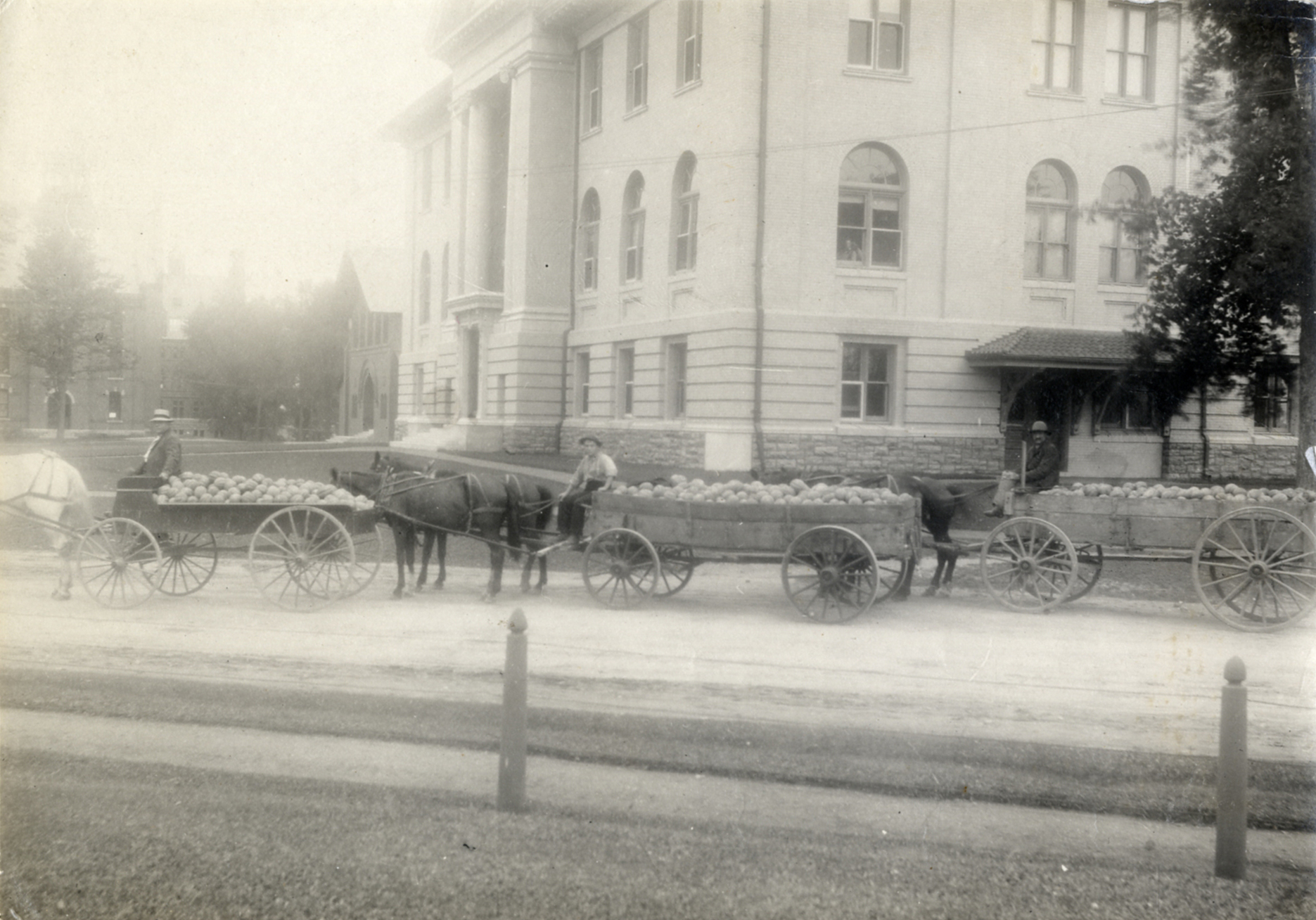 "Bumper Crops" produced by the UVM Agricultural Extension Service and cultivated at the University of Vermont farm pass by Morrill Hall on Main Street in Burlington, Vermont, 1908.